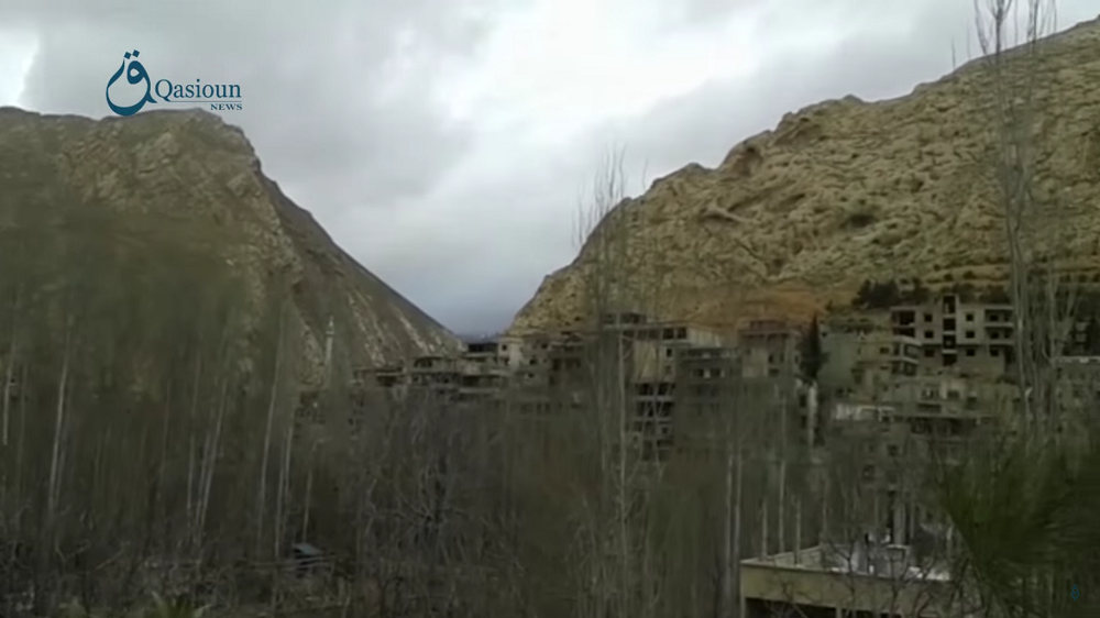 The Wadi Barada valley in 2016.